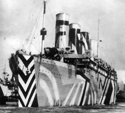 Crop of . Postcard from RMS Olympic with "dazzle" paint pattern. Published prior to January 1, 1923.